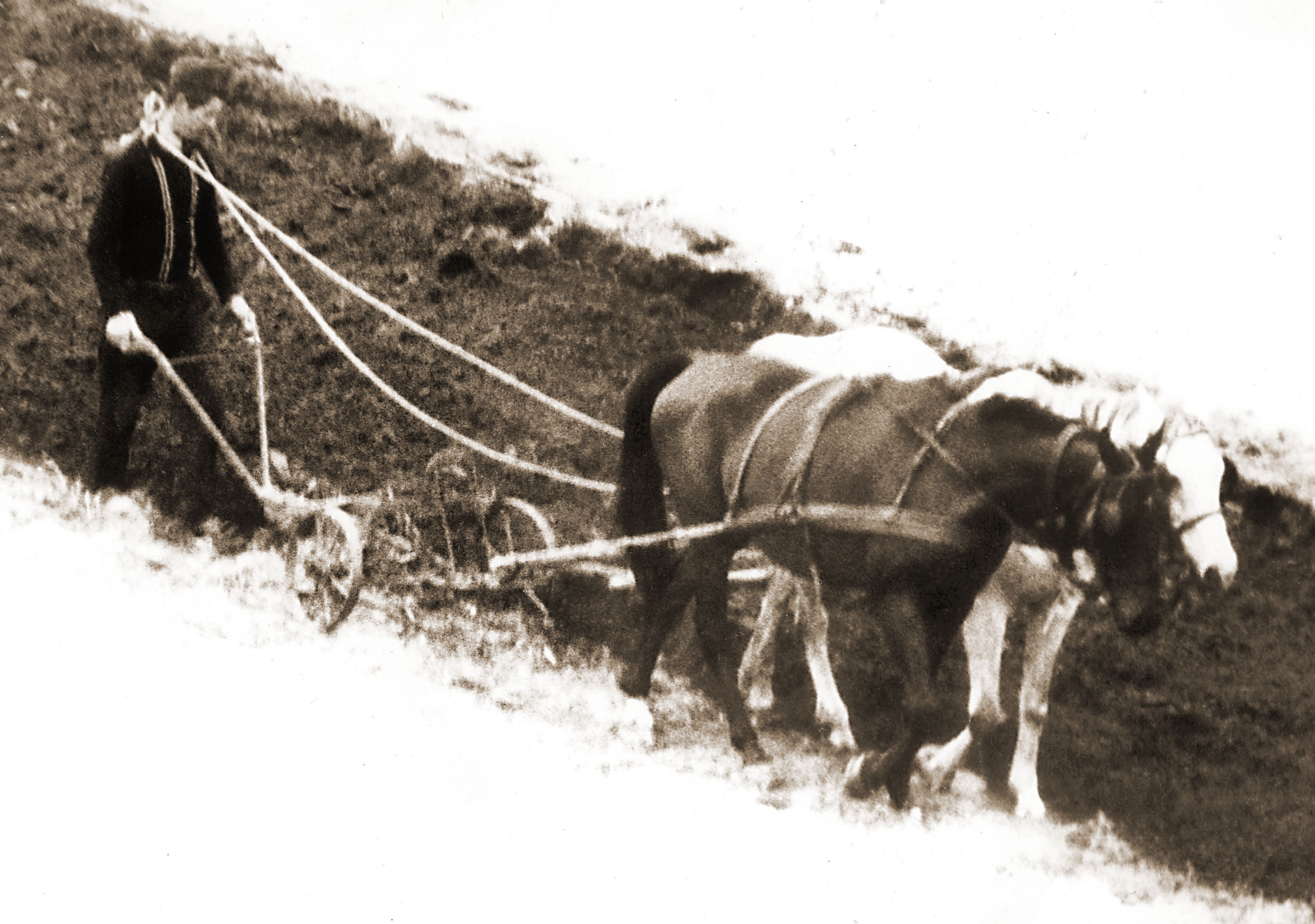 Peasant ploughing with two horses, 1977 springs, Szatmar county Hungary. Animal traction - In the communist era, the little private lands were ploughed so, few people